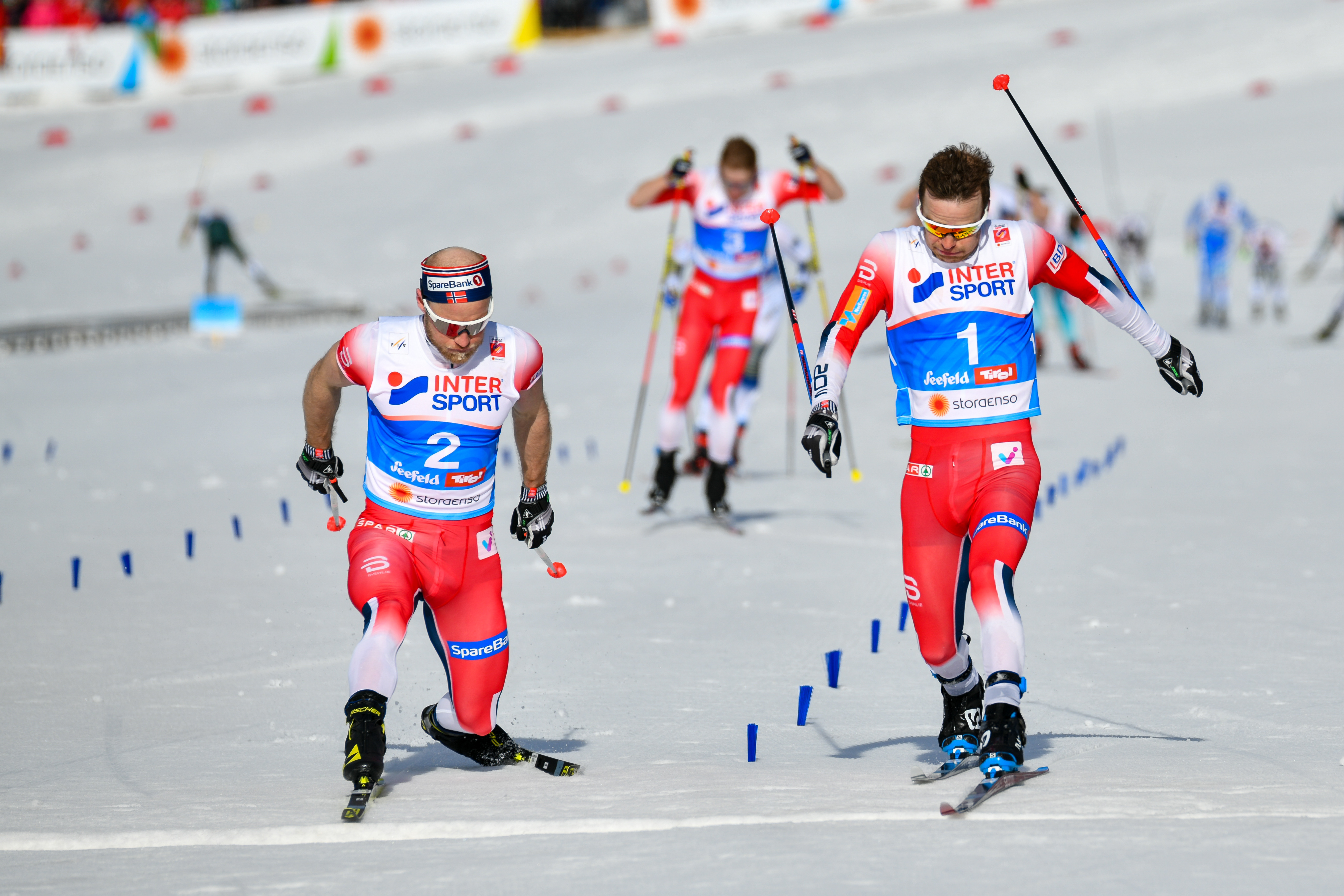 FIS Nordic World Ski Championships Seefeld 2019 - Men Cross Country 50km Mass Start Free. Picture shows Martin Johnsrud Sundby (NOR), Sjur Røethe (NOR).